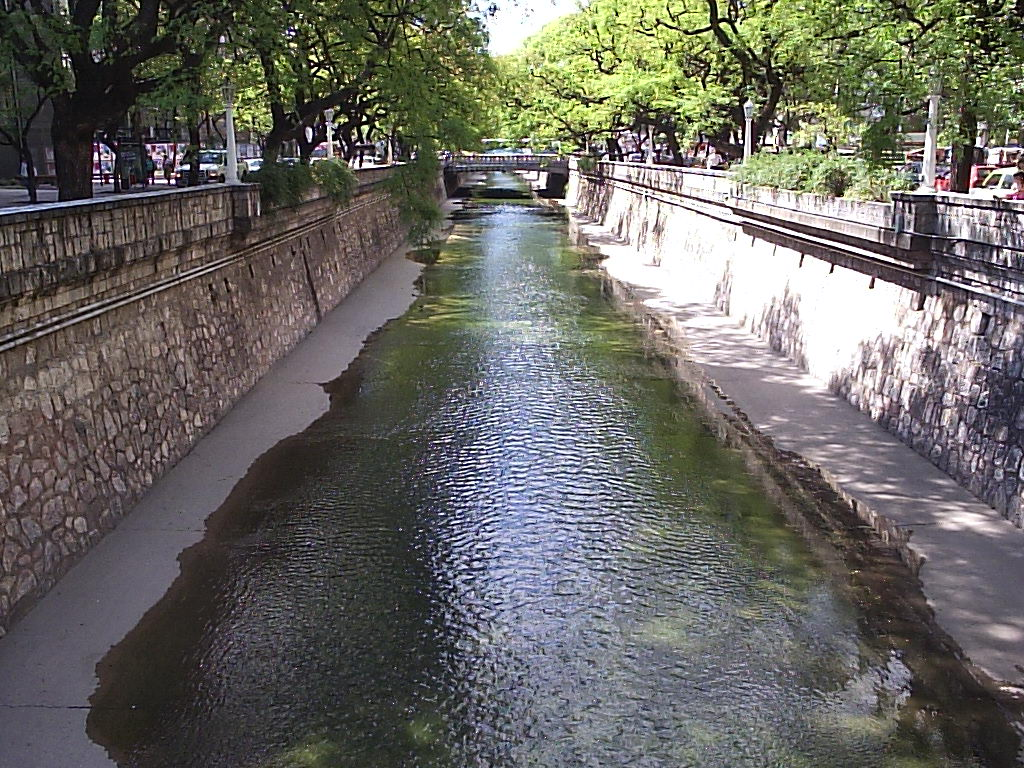 La Cañada de Cordoba, Argentina, at the intersection of Marcelo T. de Alvear st. and Caseros st.